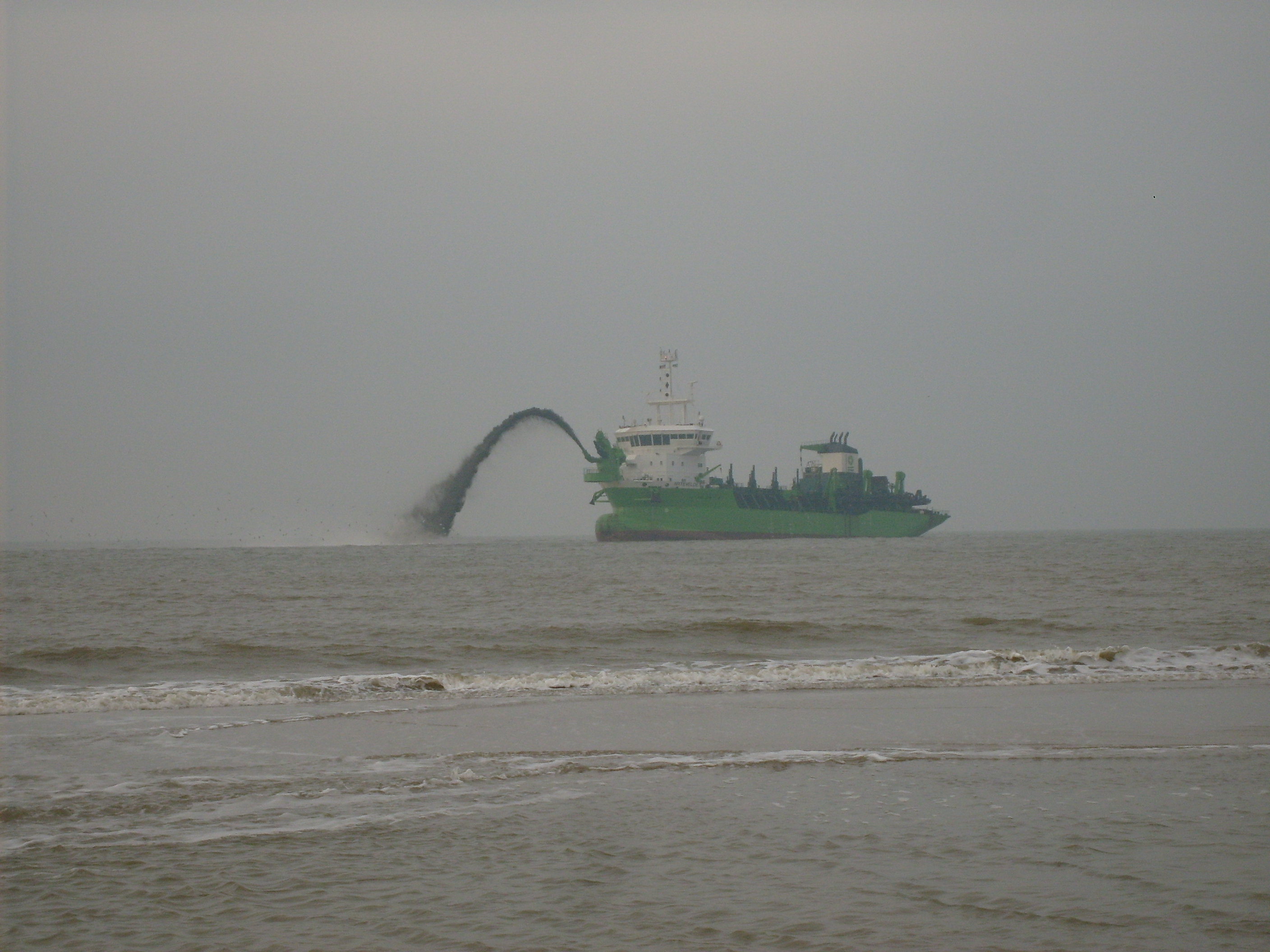 Sand suppletion on the Dutch coast. Sand is brought from a certain distance from the coast with this kind of ship. Then, it's added to the beach or dumped in the sea very close to the coastline in order to let nature do its work in bringing it to the coast.